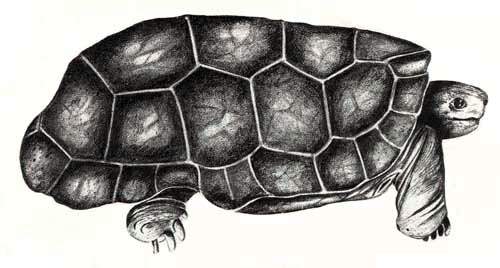 A living Domed Rodrigues Giant Tortoise (Cylindraspis peltastes)